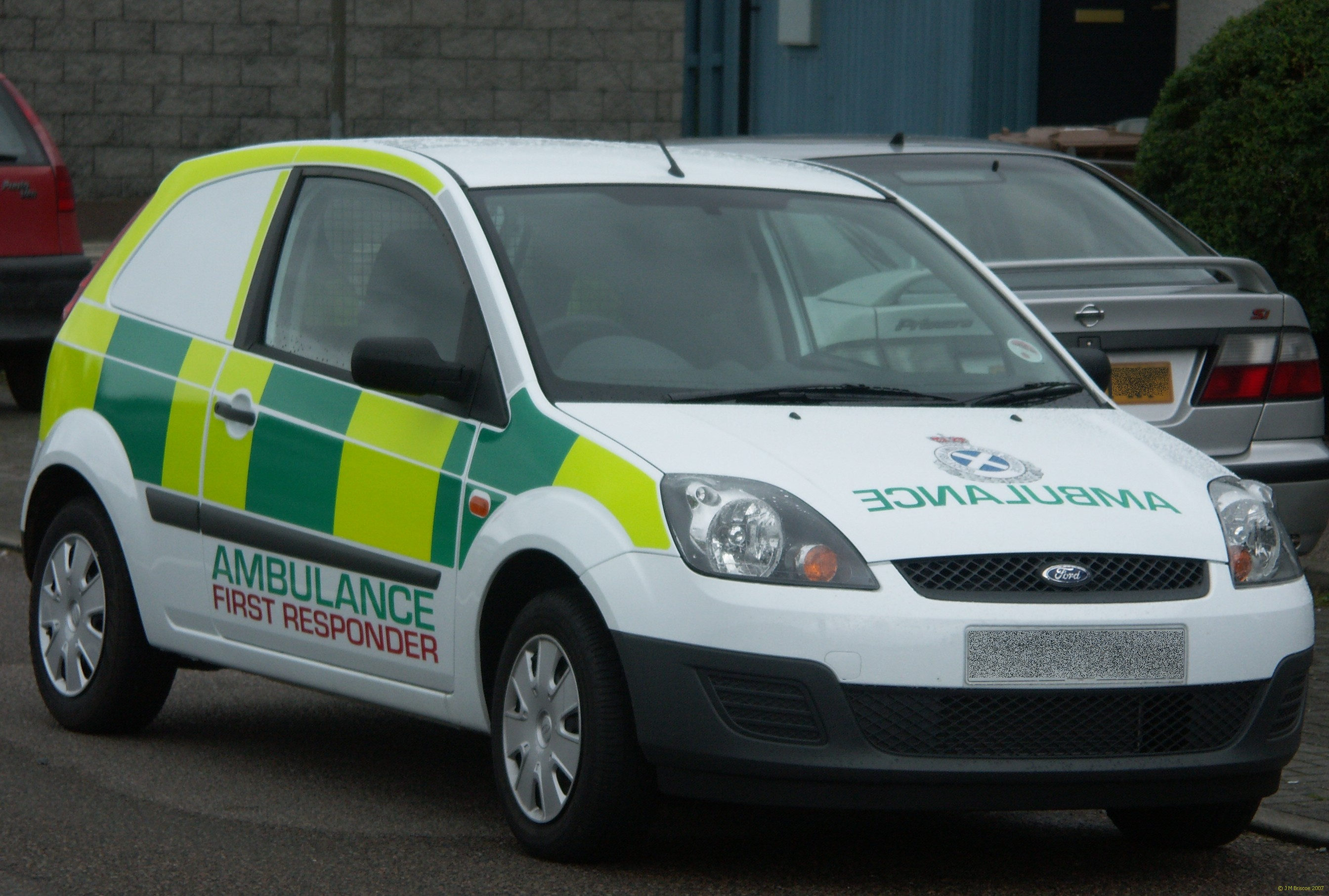 Scottish Ambulance Service "First Responder" vehicle, with "AMBULANCE" in mirror writing ("ECNALUBMA")